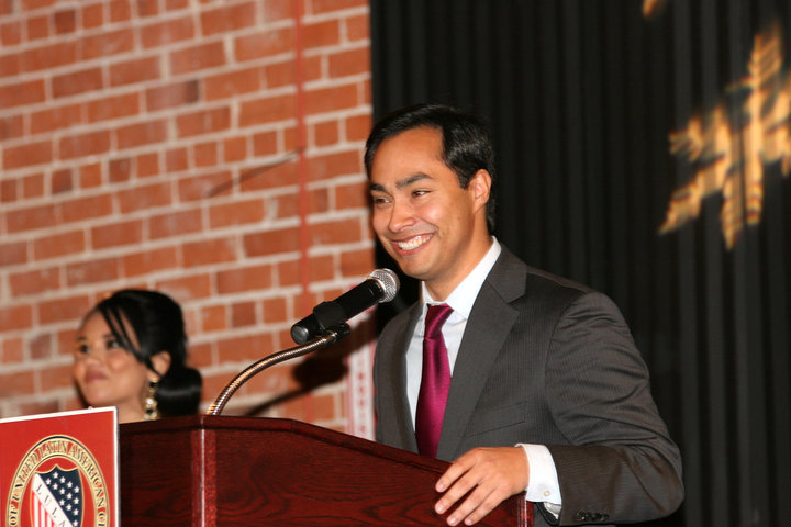 Texas State Representative beginning a Keynote Speech.